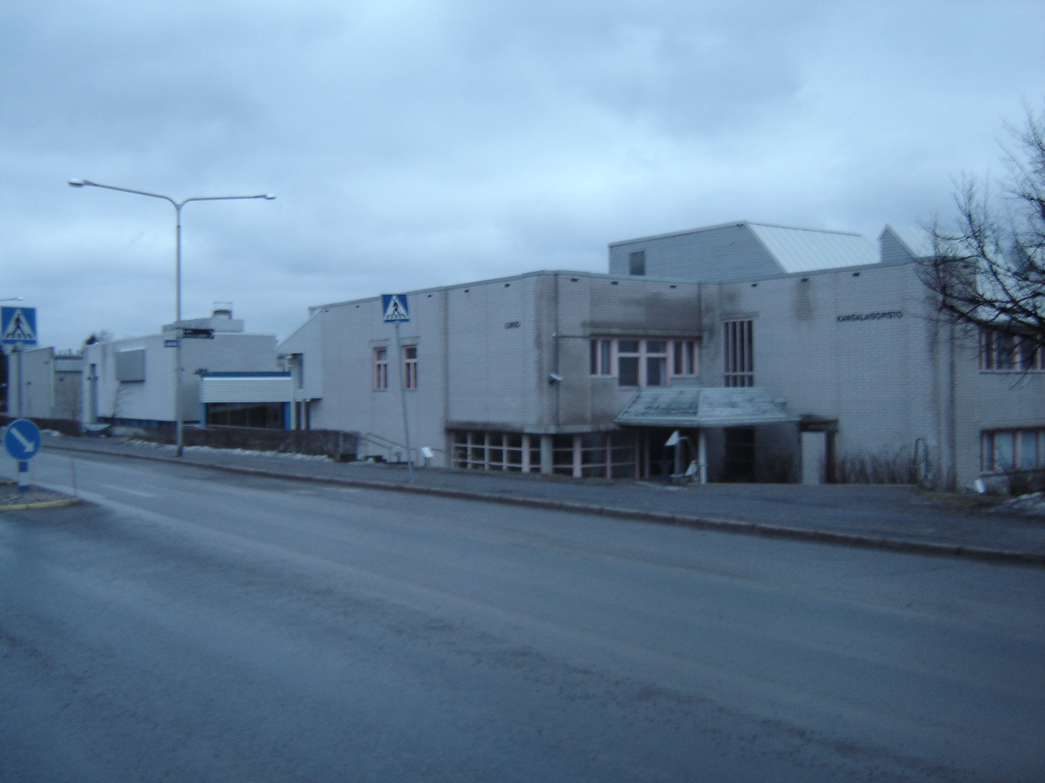 A school in Halikko, Finland